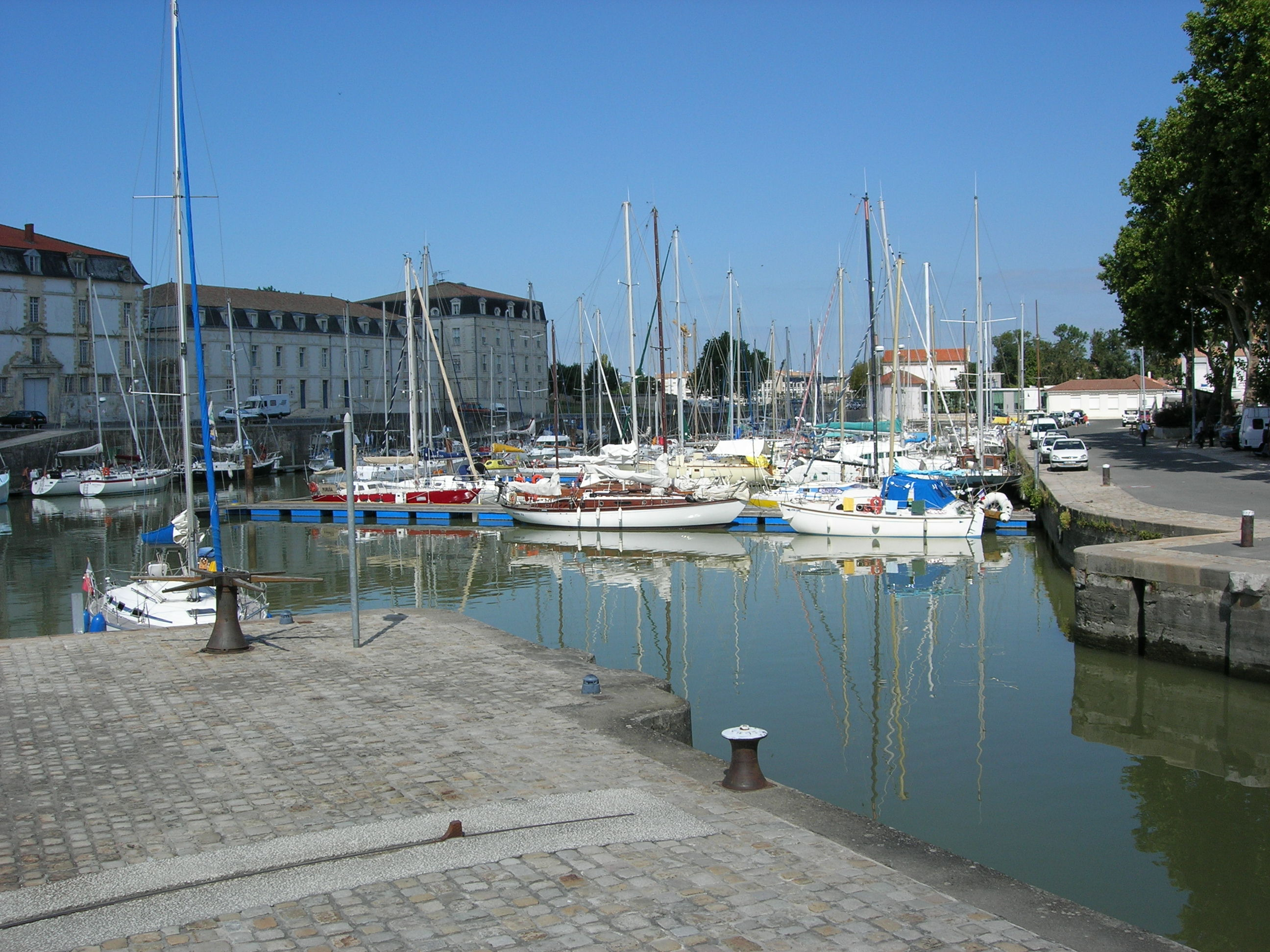 Description = Port de Rochefort (Charente) Source =Photo taken by Remi Jouan Date =Aout 2005 Author =Remi Jouan